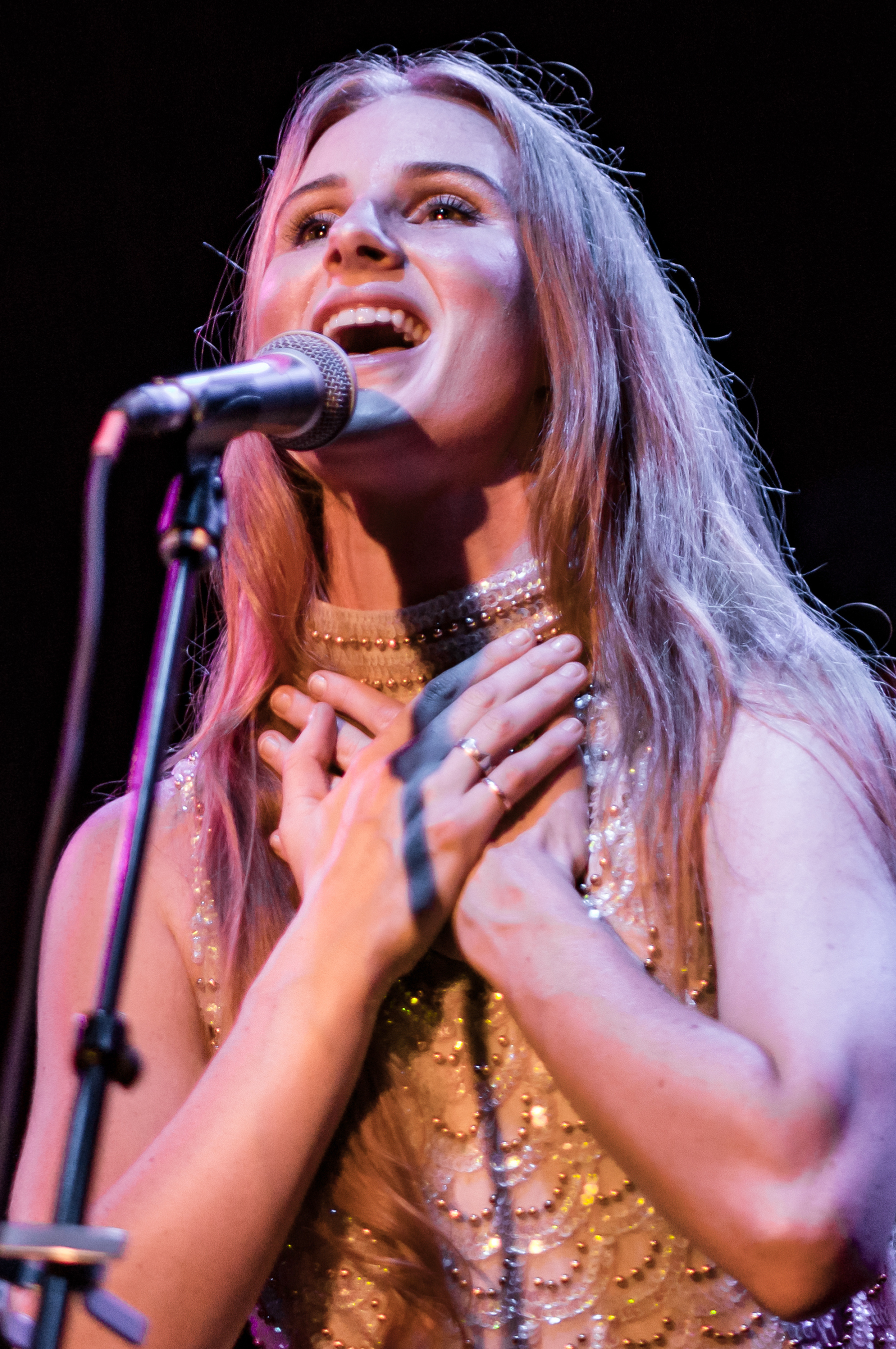 Vera Blue at the Bootleg Bar